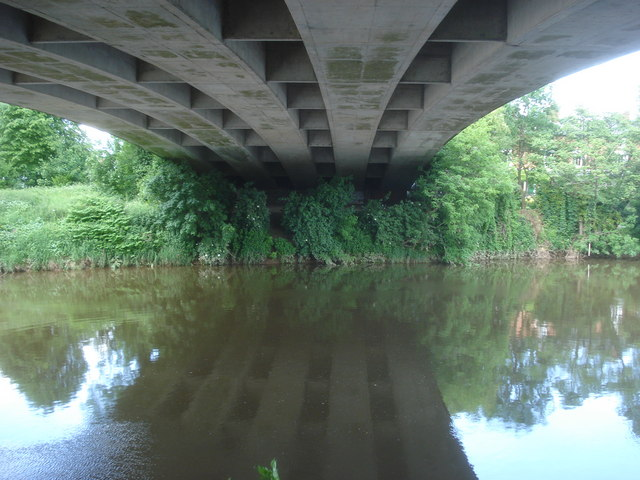 Greyfriars Bridge View northwards from the riverside footpath. The bridge was built in 1966 to carry the dual carriageway over the Wye and relieve traffic pressure from the Old Bridge.